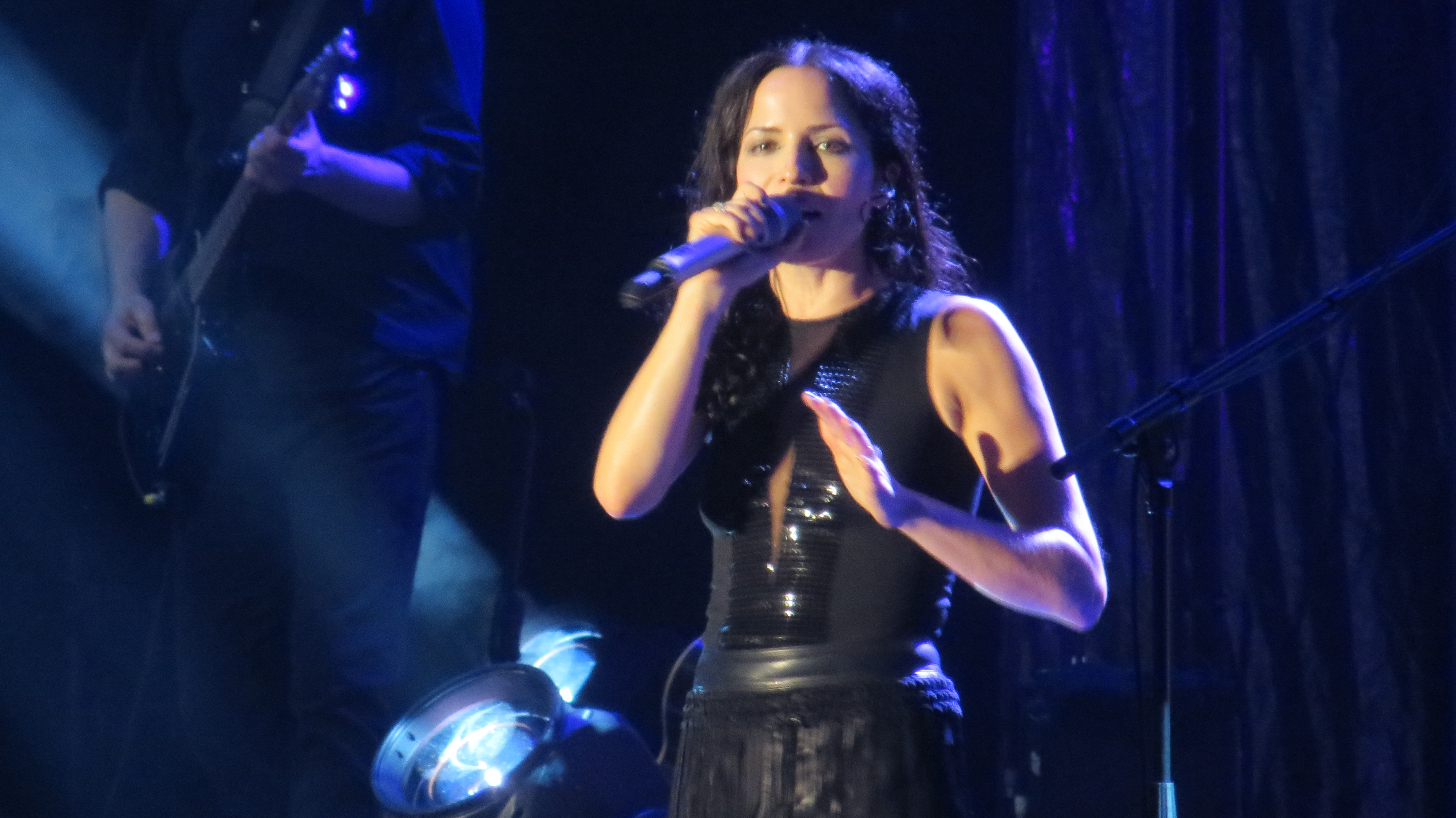 Andrea Corr in Vienna (Stadthalle, 2016)